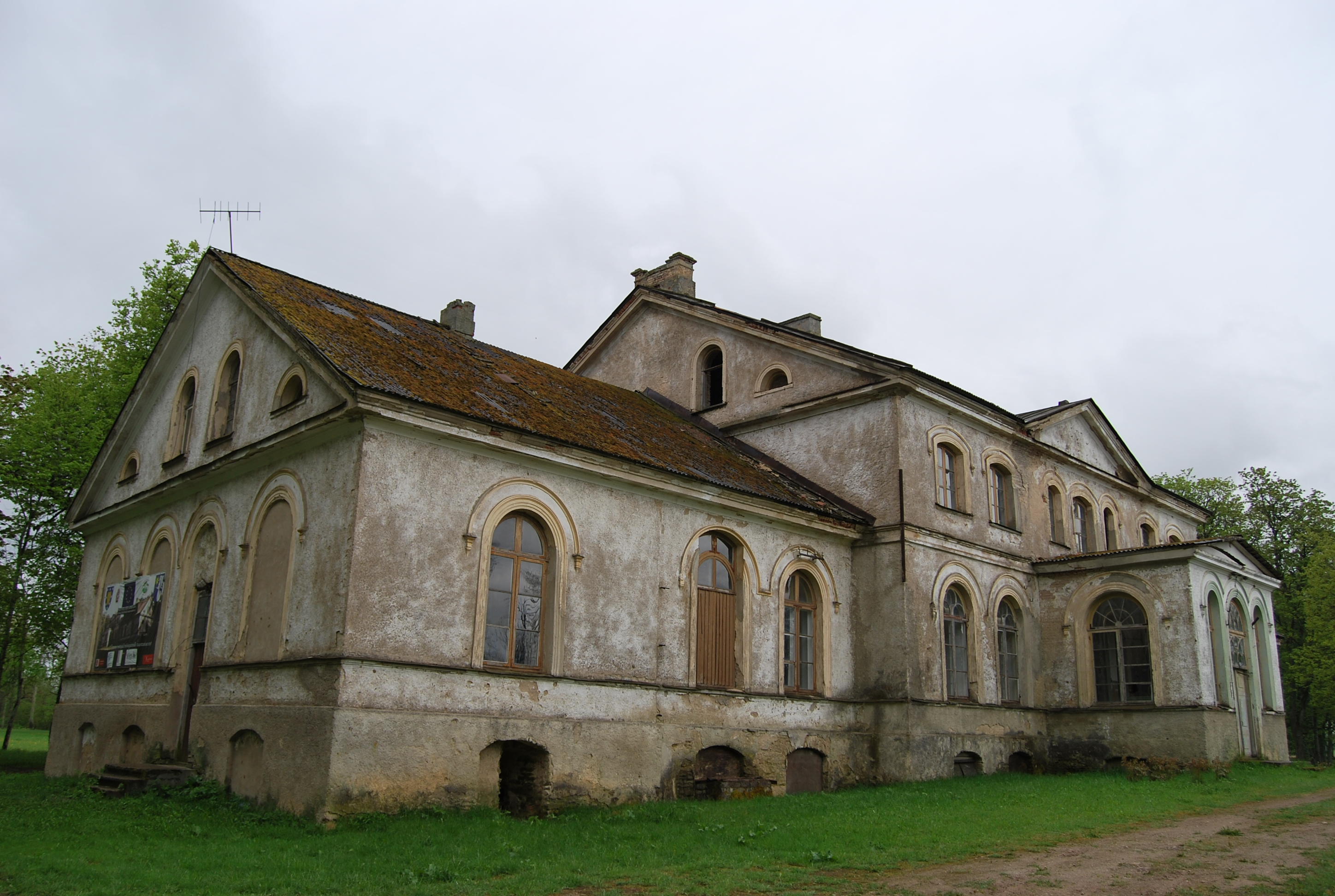 Vanamõisa manor, located in Lääne-Viru district, Estonia.